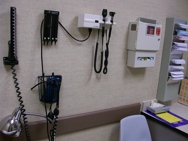 Equipment in a doctor's office.